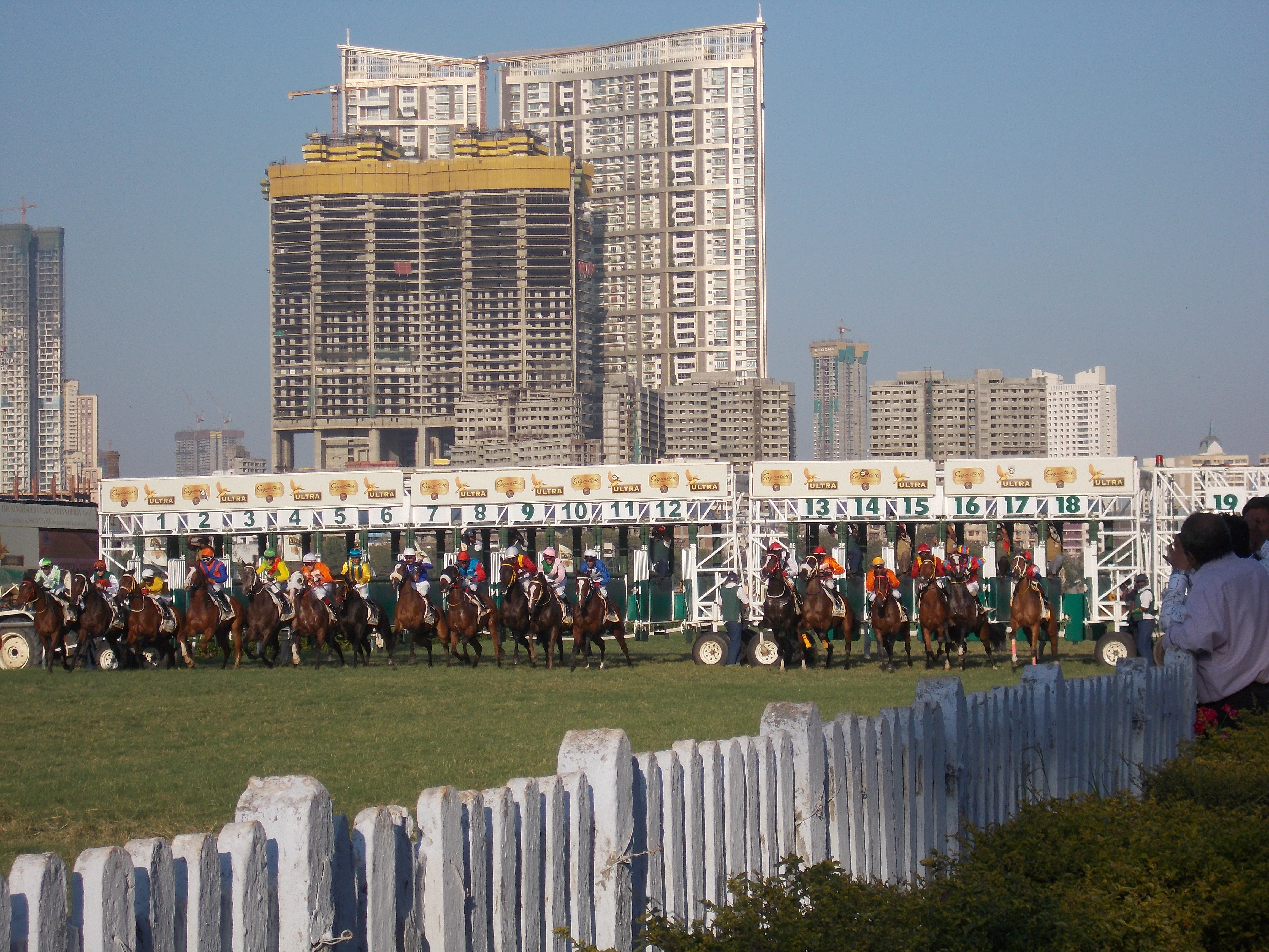 The start of the "Kingfisher Ultra Million Indian Derby-2016".